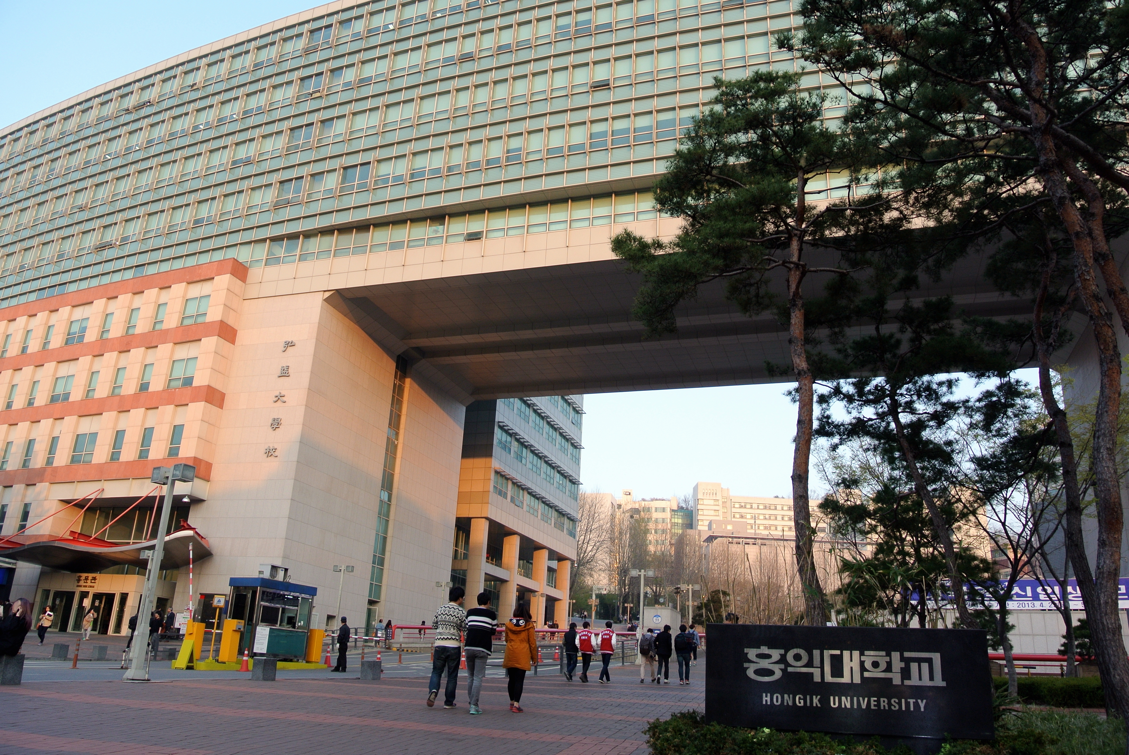 Entrance of Hongik University